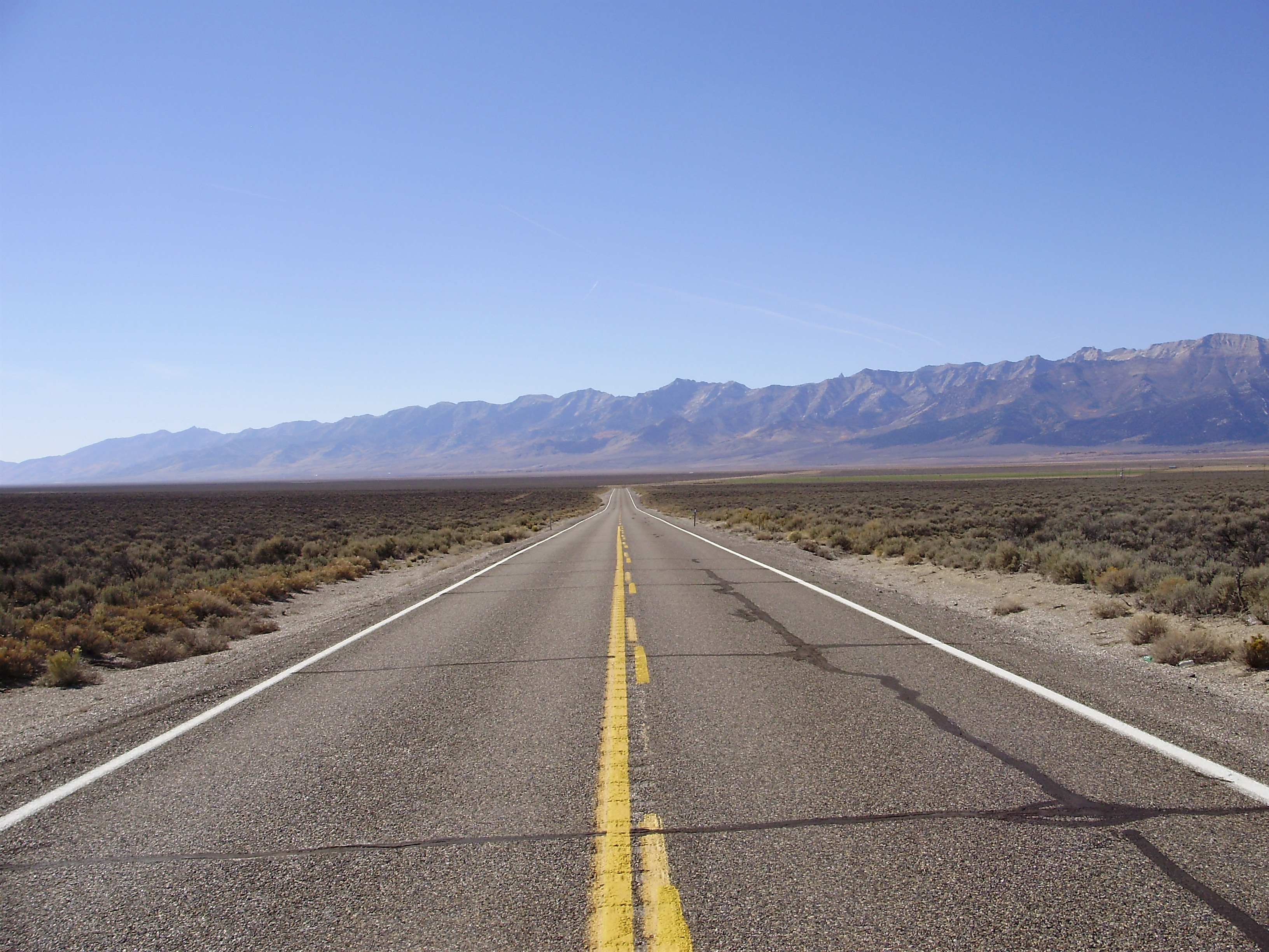 View northwest along Nevada State Route 229 (Secret Pass Road) about 44.3 miles from Interstate 80 in Elko County, Nevada